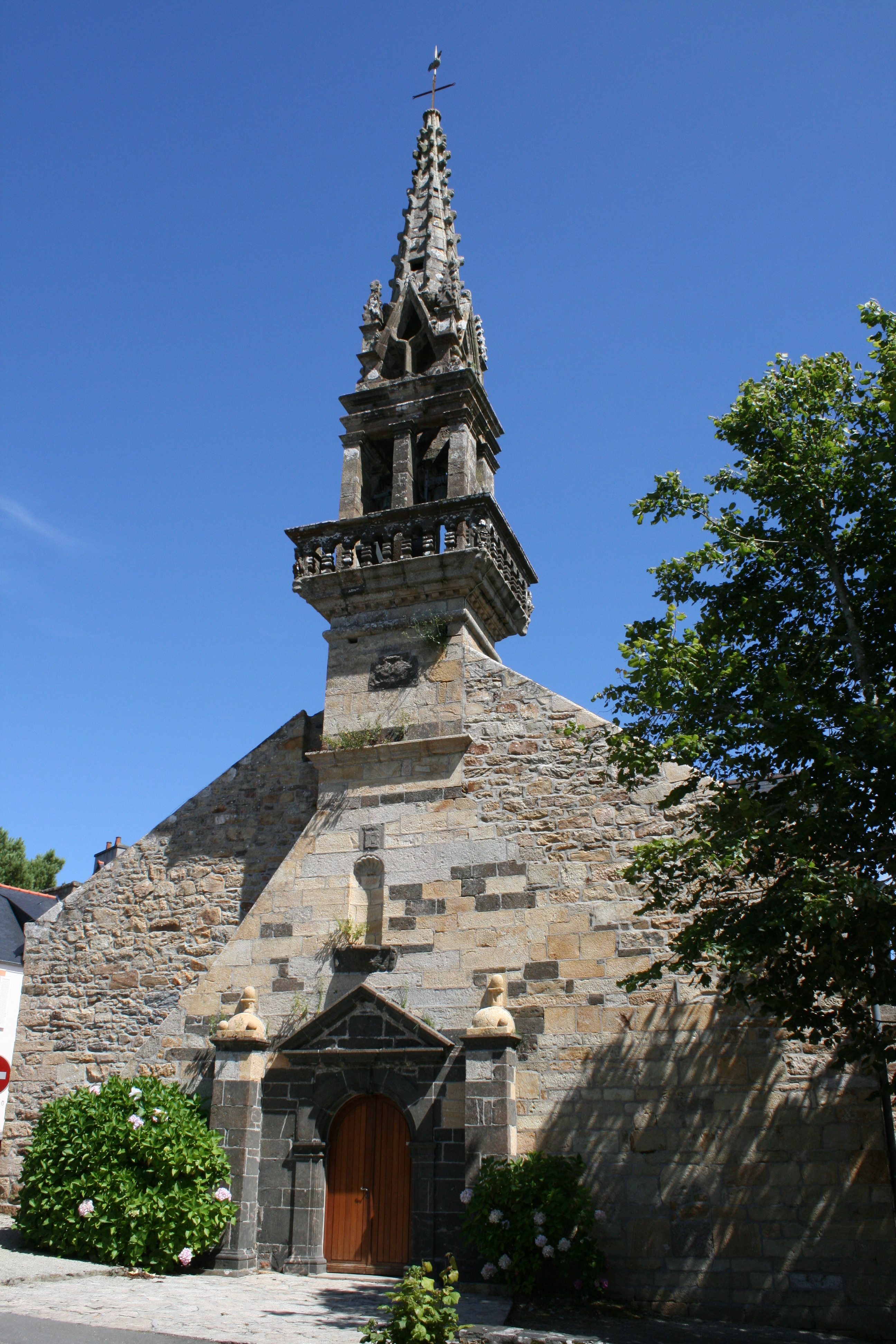 Church Saint-Eloi of Roscanvel